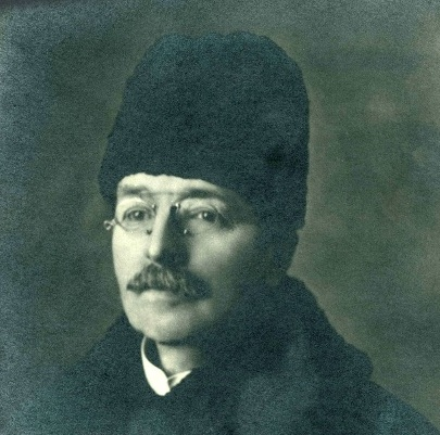 Swedish doctor, newspaper editor/journalist, author and politician Nils August Nilsson (N.A. Nilsson), Örebro, Sweden (1860-1940)